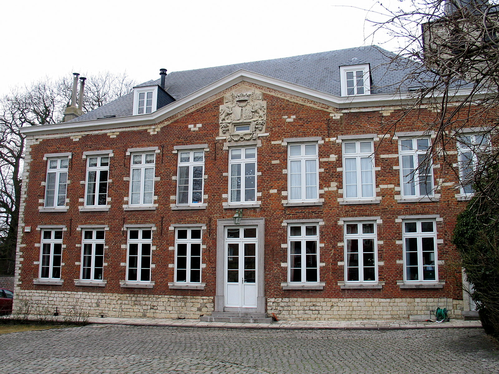 Castle of Zétrud-Lumay (Zittert-Lummen)